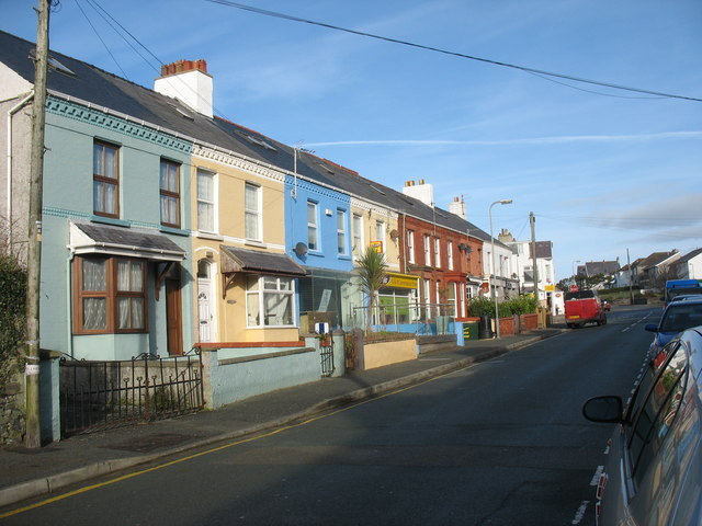 A terrace of shops and houses in the High Street, Rhosneigr